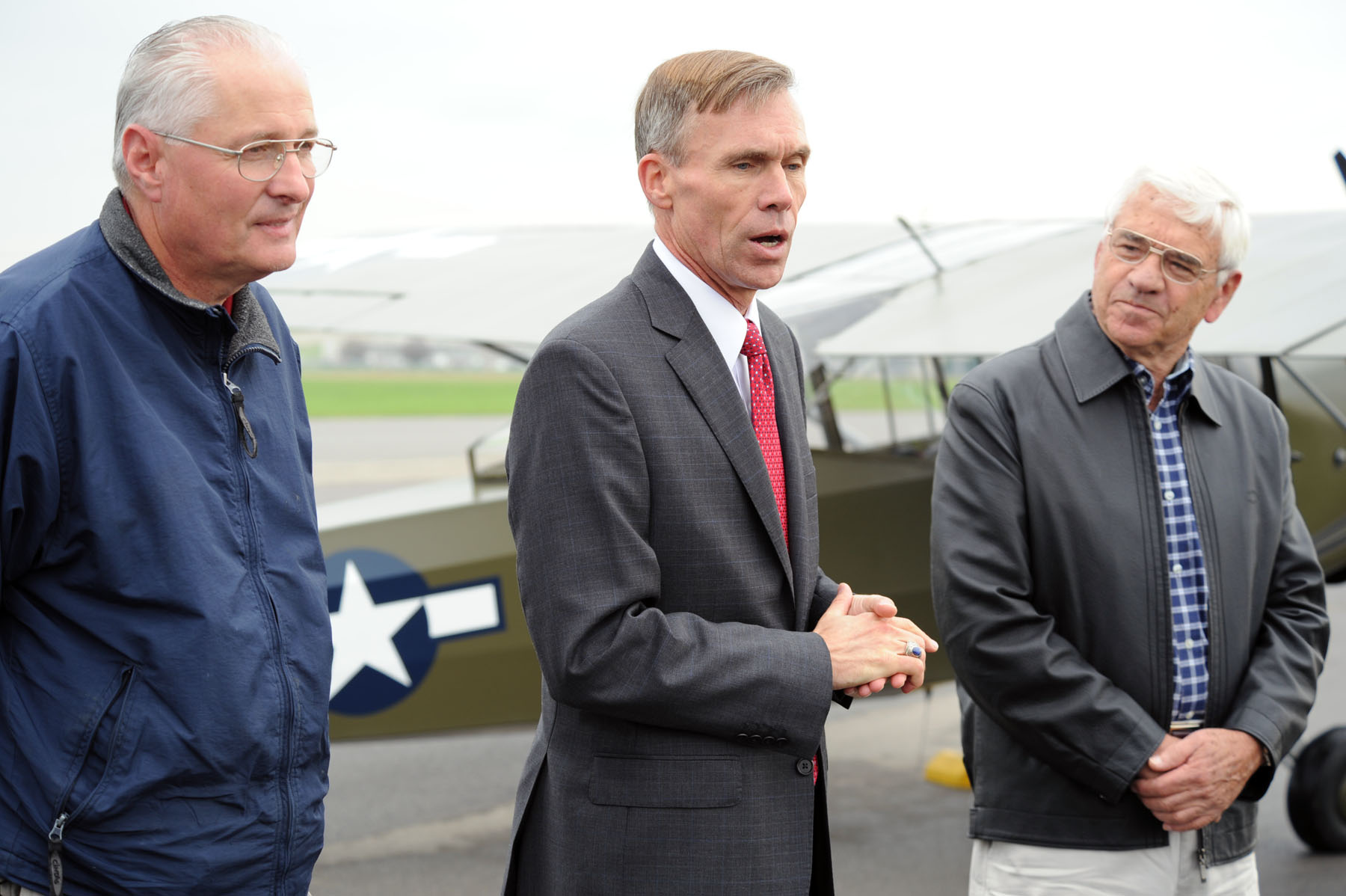 DAYTON, Ohio -- Lt. Gen. (Ret.) John L. "Jack" Hudson (center), director of the National Museum of the U.S. Air Force, addresses the audience after the L-2M made its final flight on Sept. 28, 2011. This L-2M was used at the U.S. Army Air Forces Liaison Pilot Training School during World War II. Also pictured are Dick Valladao (right), the aircraft donor and pilot, and Roger Deere, chief of the museum's Restoration Division. (U.S. Air Force photo by Jeff Fisher)